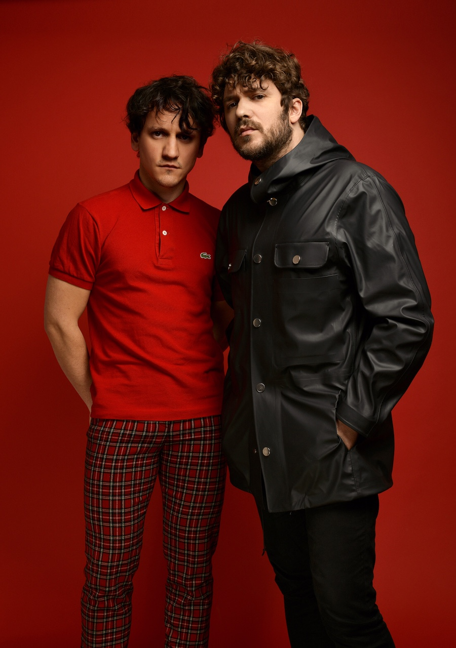 ELEPHANZ 2017